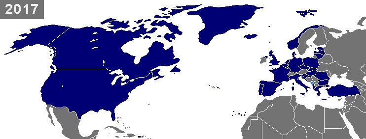 Map of the expansion of the intergovernmental military alliance NATO by Montenegro on June 5, 2017.